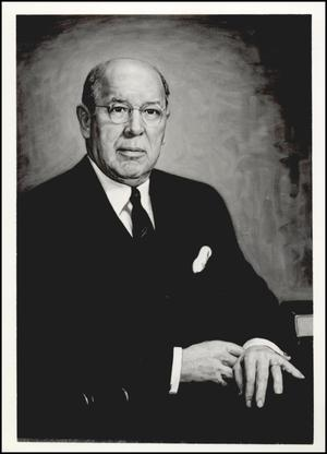 Portrain of William Grove Skelly